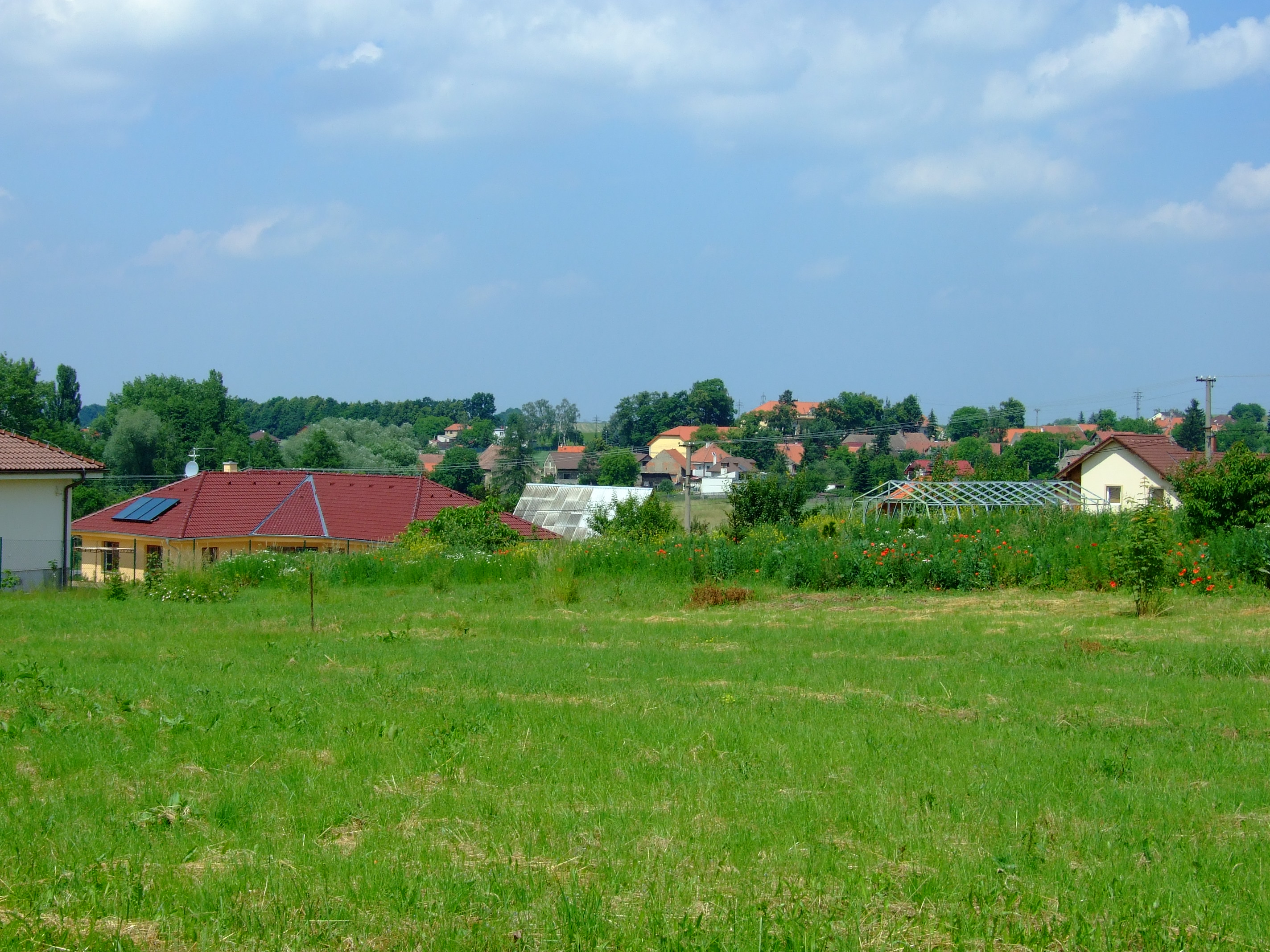 Svárov village, Central Bohemian region, CZhelp